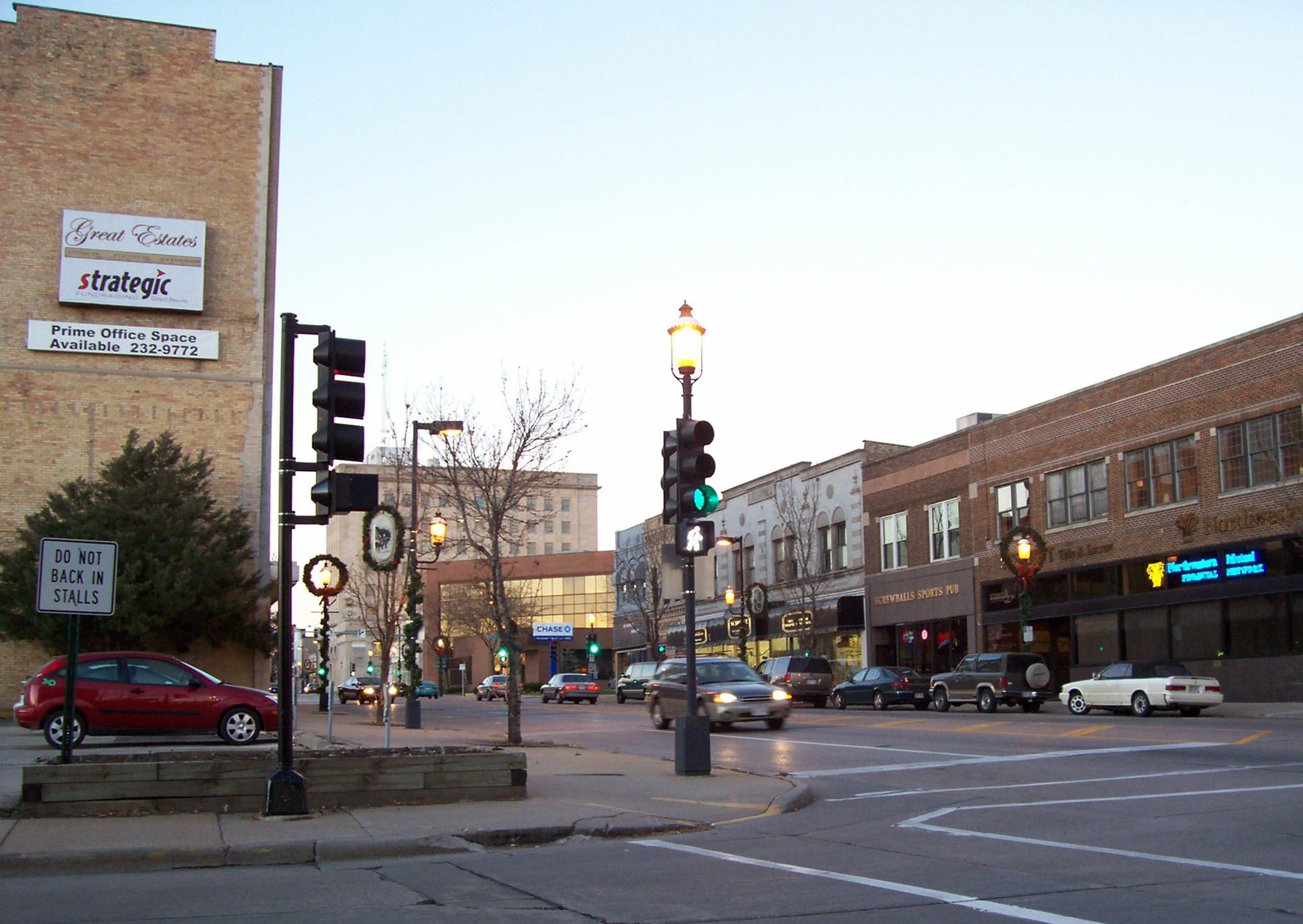 Looking northerly at downtown Oshkosh, Wisconsin, USA at Main Street which is U.S. Highway 45. Cropped from the original.